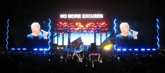 Pink Floyd live exhibition at Live8, London: stage detail.